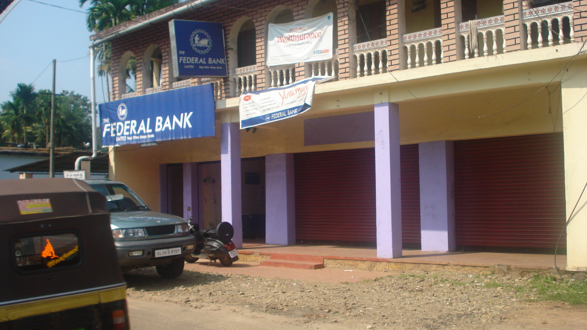 federal bank